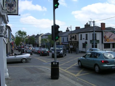 Main street, Gorey, Co. Wexford